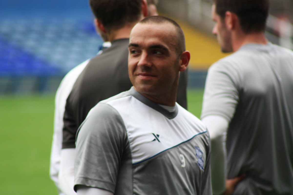 David Murphy at Birmingham City open training session at St.Andrews' Stadium.